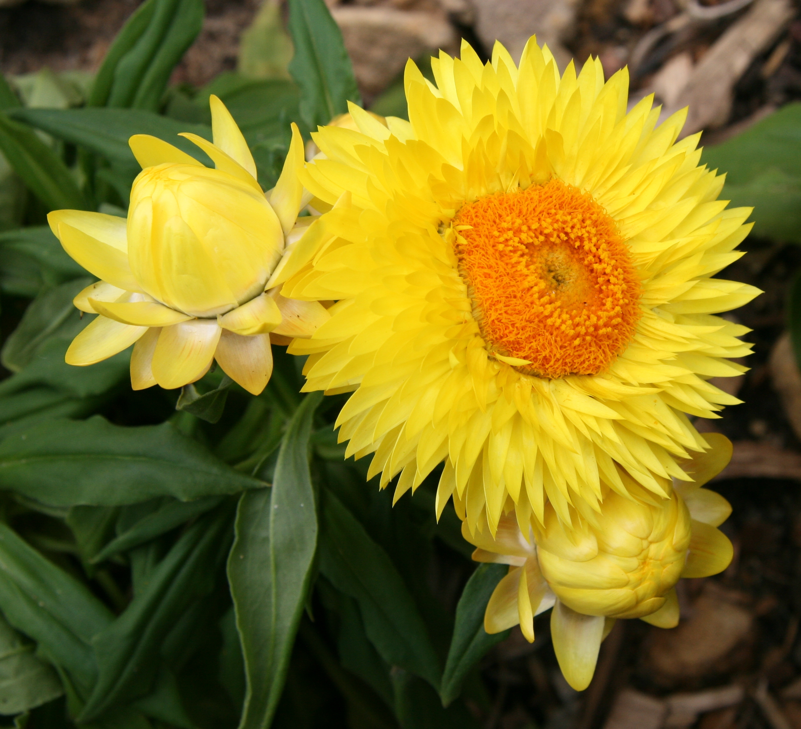 Xerochrysum "Strawburst" flowering in my garden in Spring (Sydney)